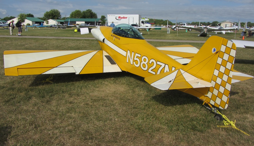 Van's RV-1 Tail